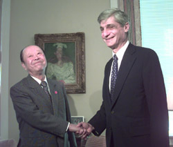 Secretary of Treasury Robert Rubin (right) with Japan's Minister of Finance Kiichi Miyazawa